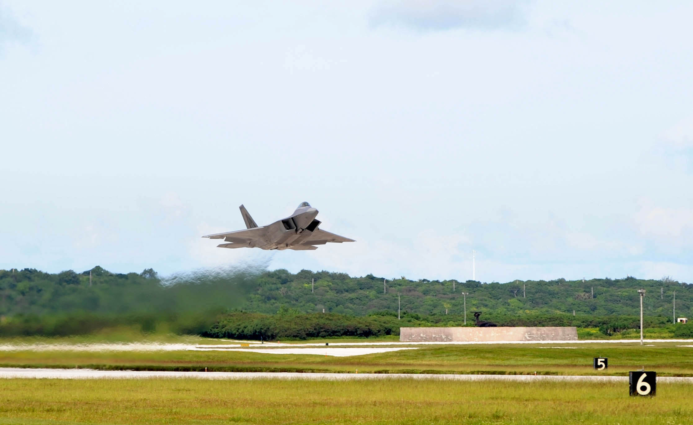 An F-22 Raptor from the 525th Expeditionary Fighter Squadron takes off Aug. 25, 2009, from Andersen Air Force Base, Guam. The F-22 is deployed from Elmendorf AFB, Alaska, to support U.S. Pacific Command's theater security package in the Asia-Pacific region.